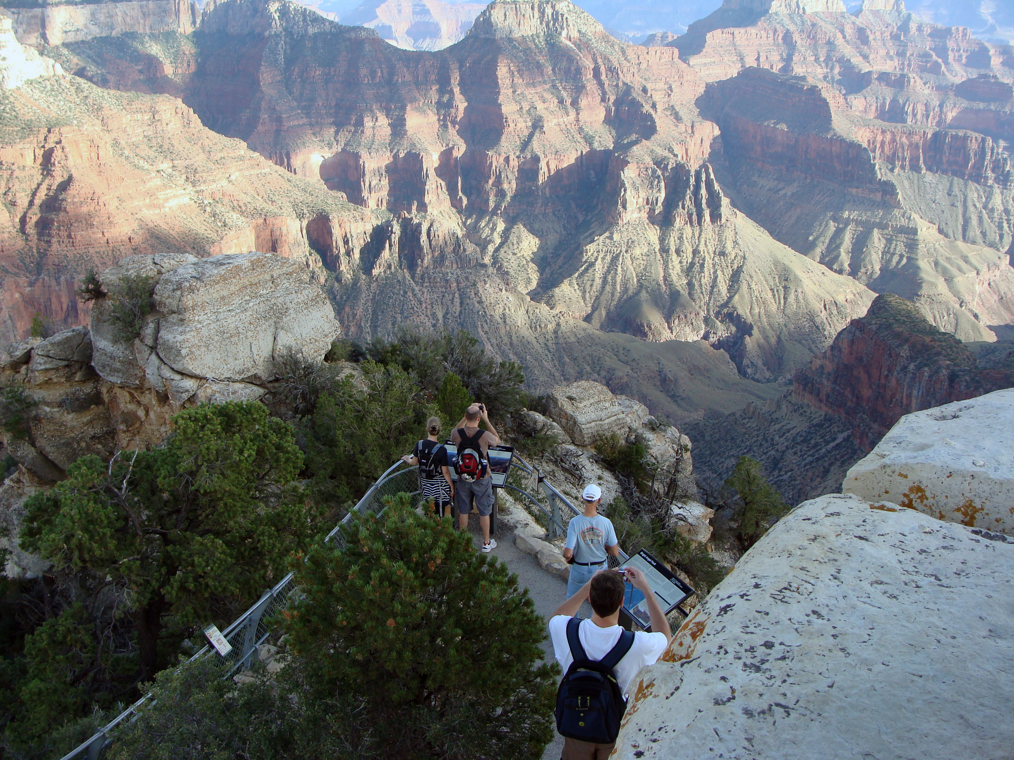 Grand Canyon National Park, North Rim